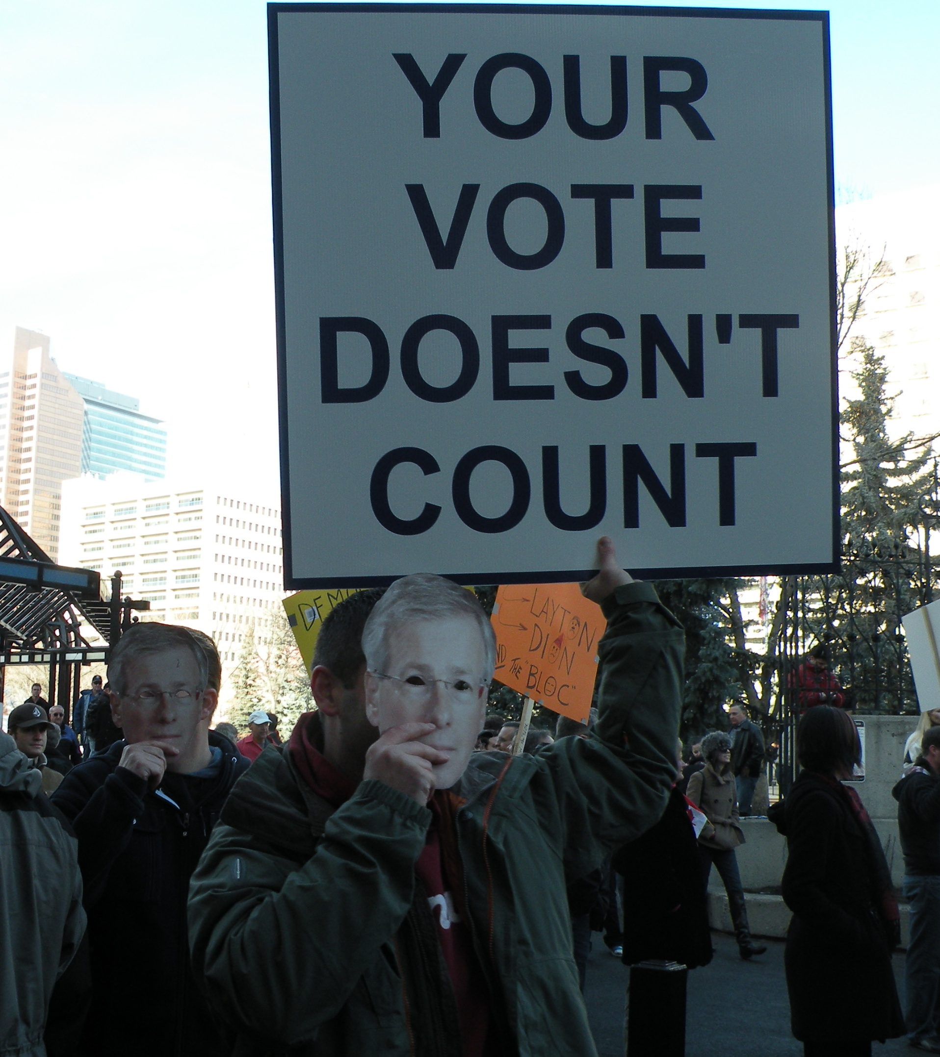 A demonstrator with a Stephane Dion mask during an anti-coalition protest in Calgary, Alberta as part of the 2008 Canadian parliamentary dispute.